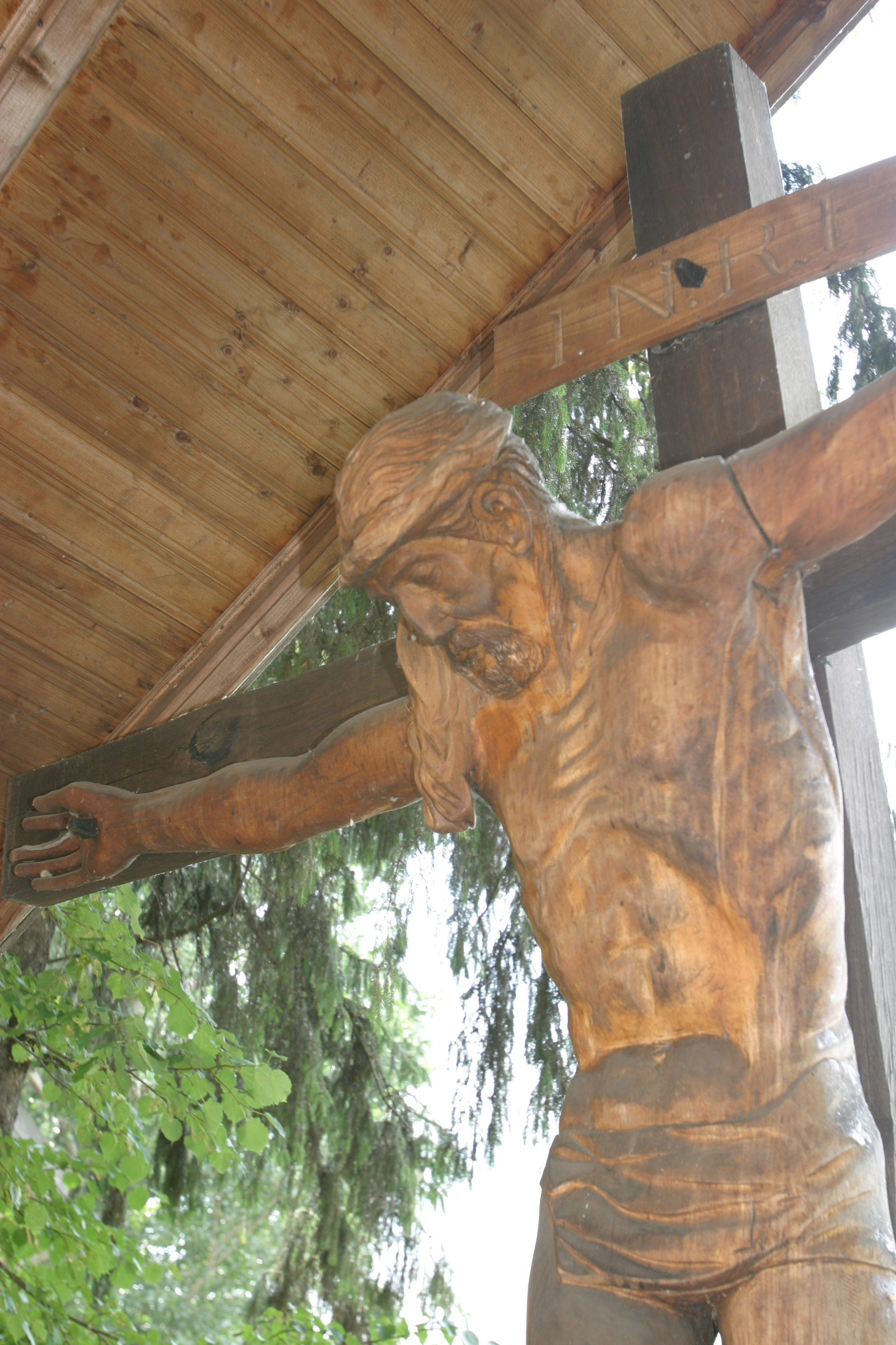 Corpus from church